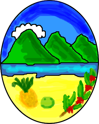 Coat of arms of the Colombian municipality of Manaure Public domain. Created in 1874.